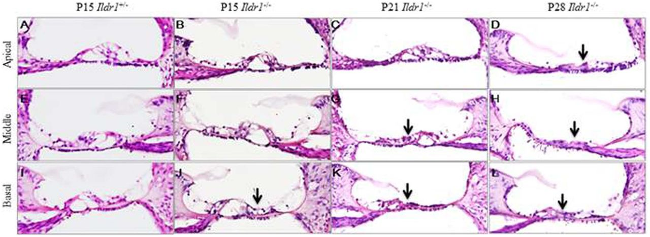 Hematoxylin and eosin labeling of frozen cochlear sections showing the structure of the organ of Corti.